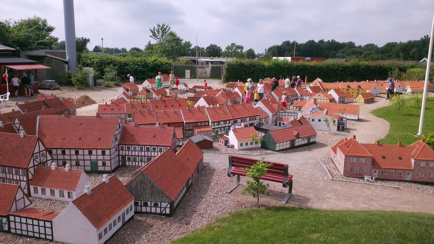 Kolding Miniby.